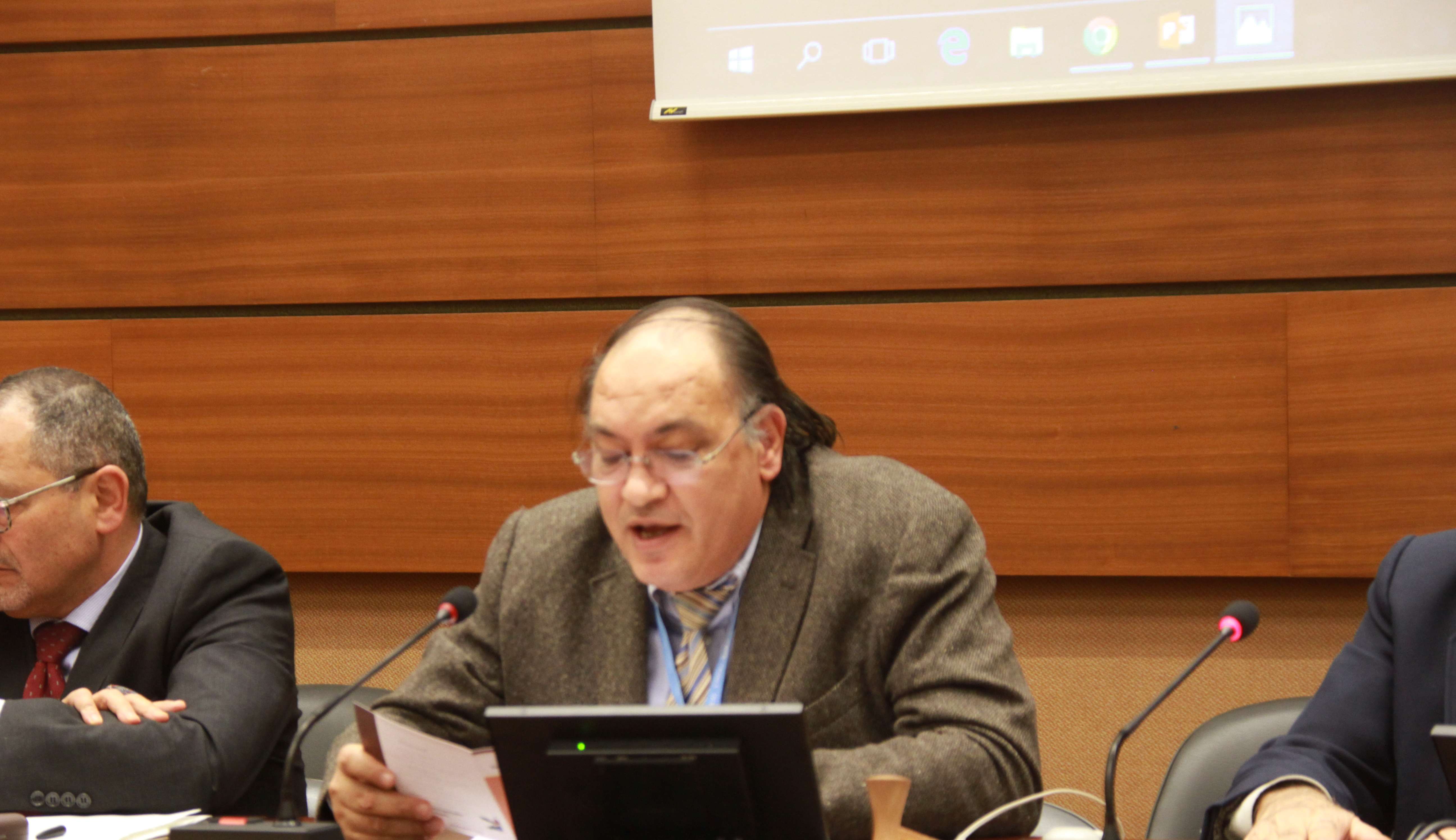 Abu Seada at the 40th session of the United Nations Human Rights Council